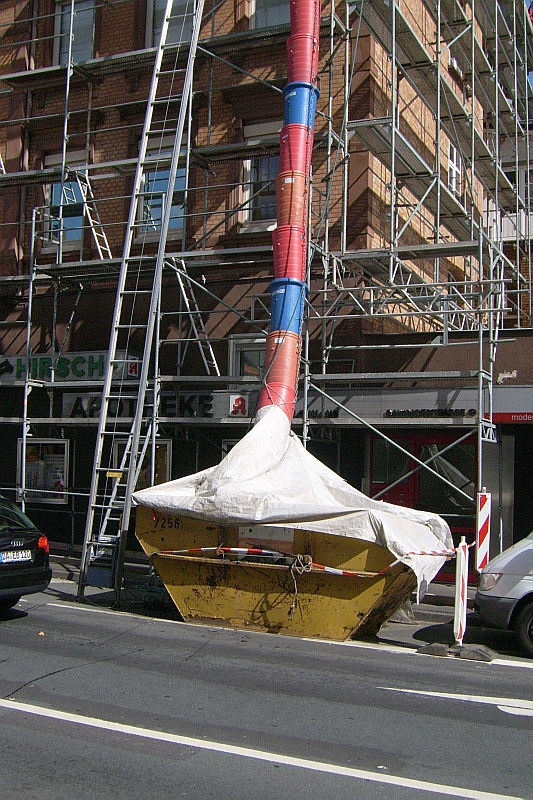 Construction equipment for roofers, part 2